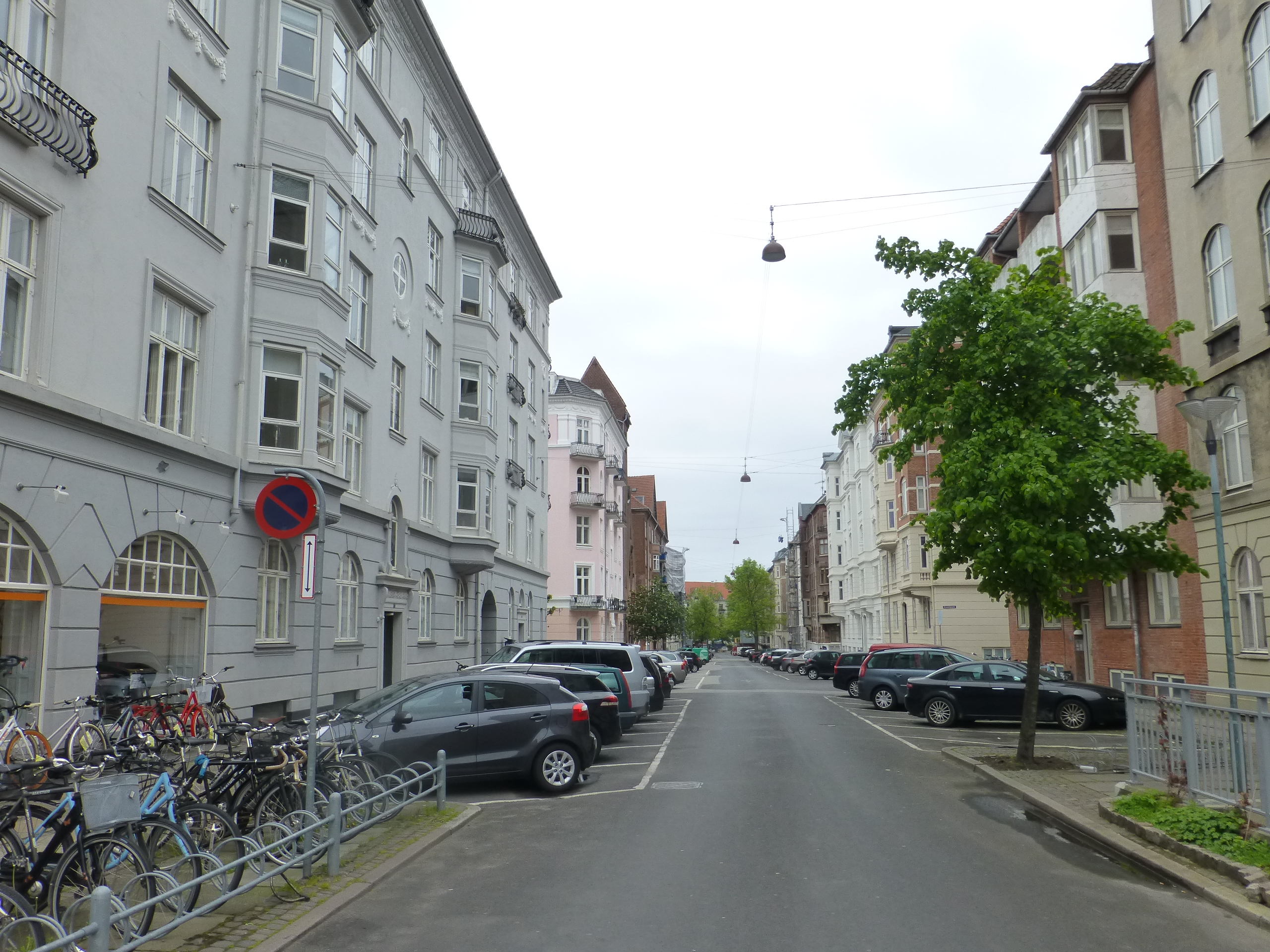 The street Koldinggade in Østerbro in Copenhagen.